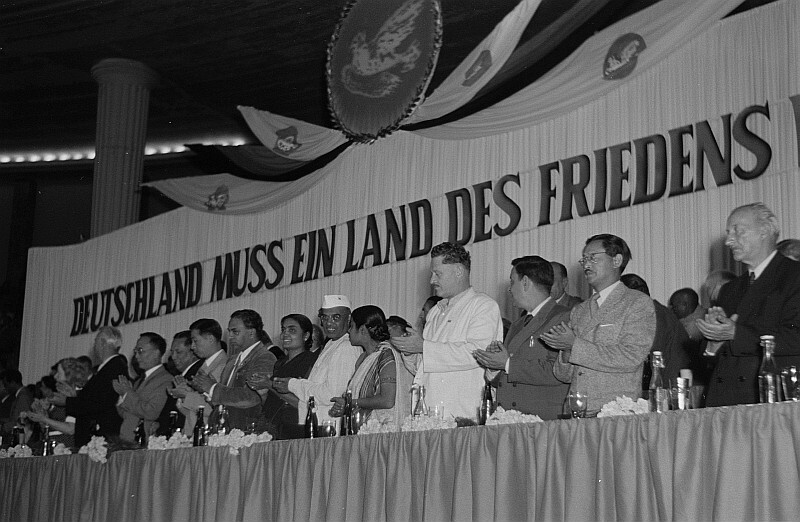 Original image description from the Deutsche Fotothek Delegationen